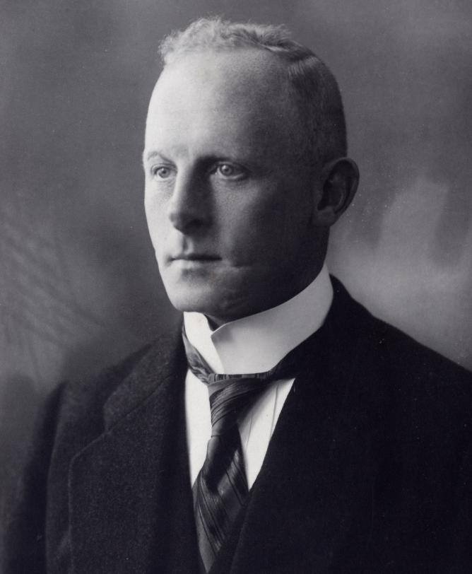 Melchior von der Decken Senatspräsident 1886 Itzehoe -1953 Hamburg